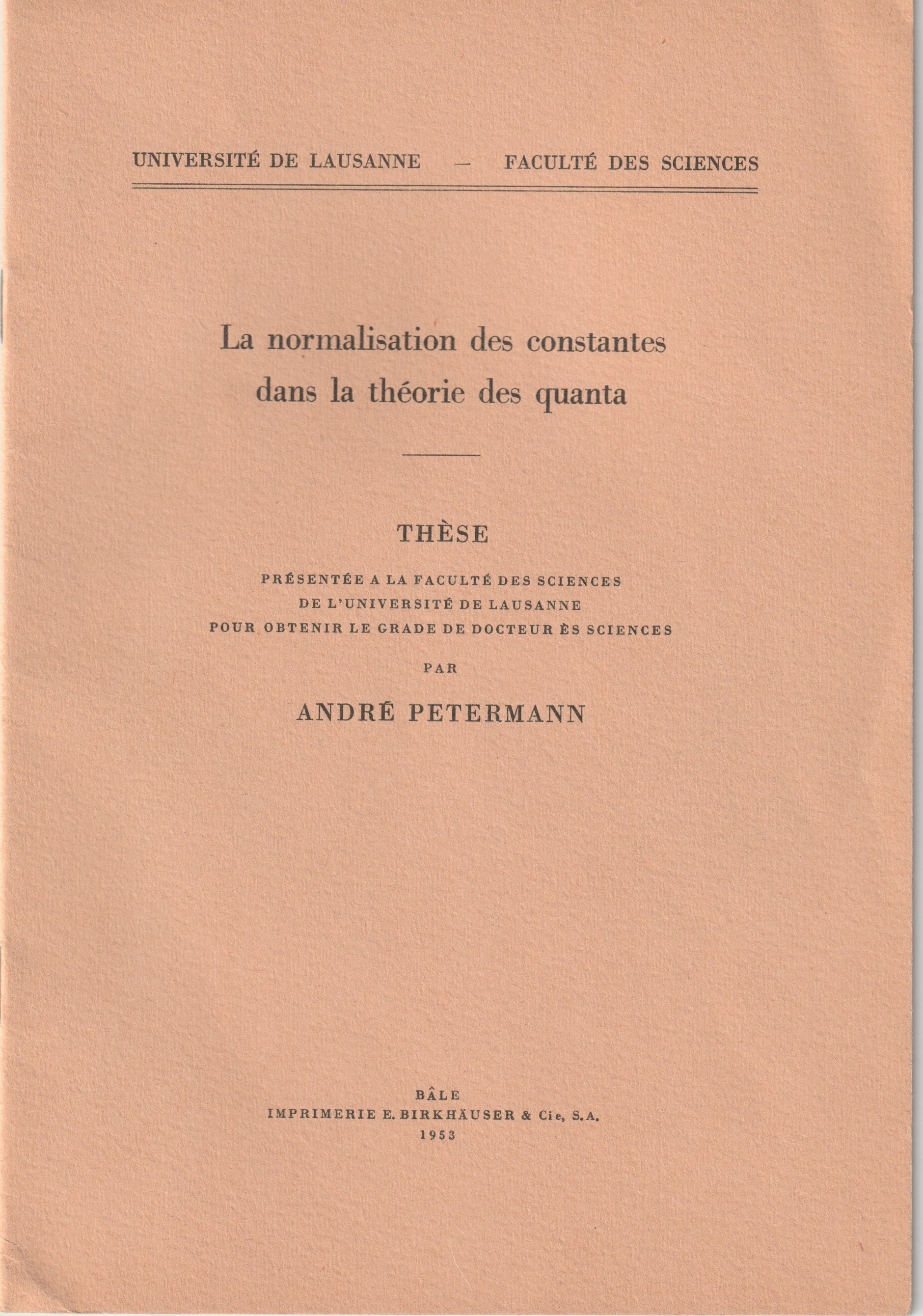 André Petermann's doctoral thesis, La normalisation des constantes dans la théorie des quanta, defended in 1952 at University of Lausanne, was later published in Helv. Phys. Acta. 26: 499–520, then co-signed with his advisor Ernst Stueckelberg. The article has been cited more than 500 times.